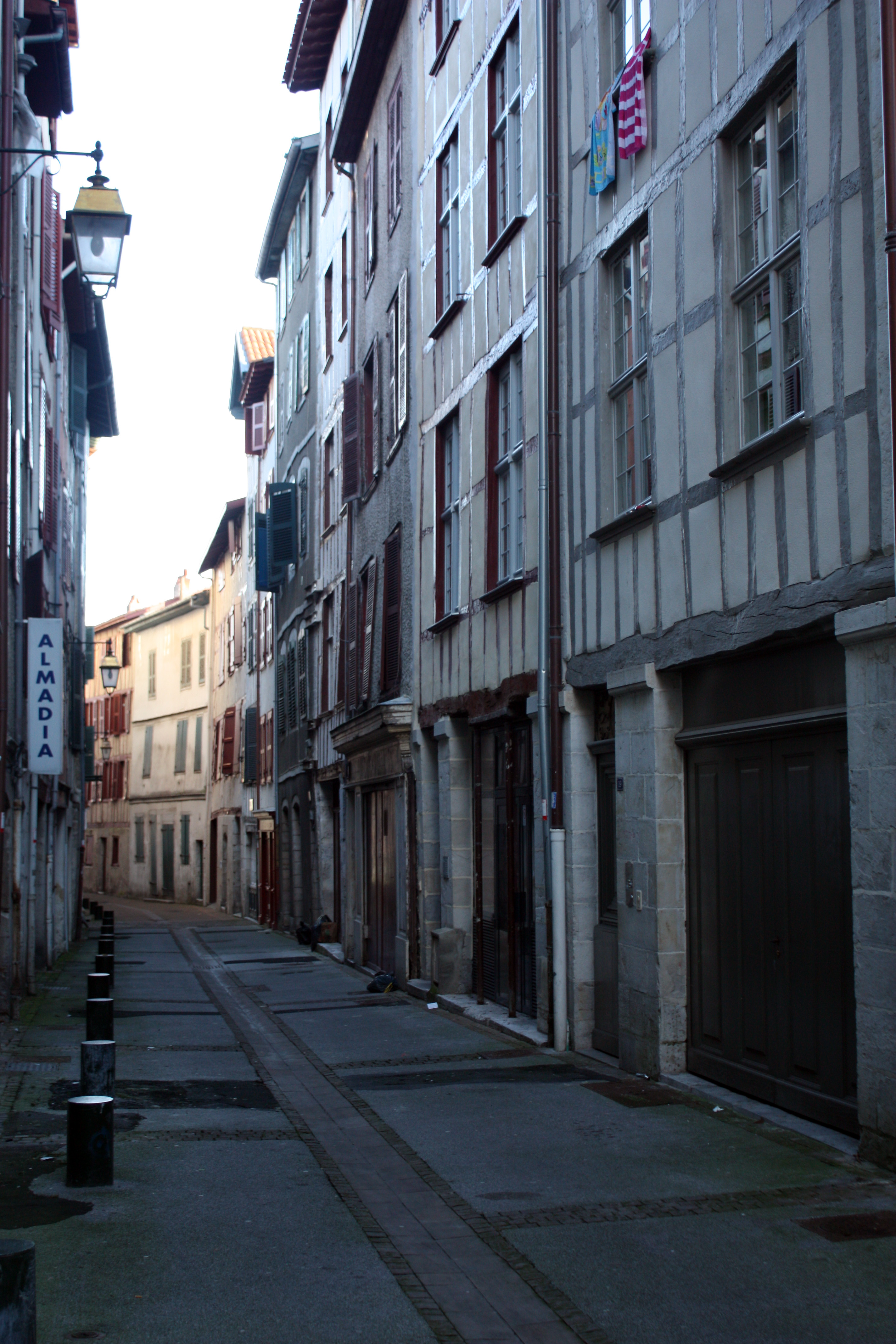 The street Passemillon serves the houses that line the streets of Tower de Sault, down the wall.